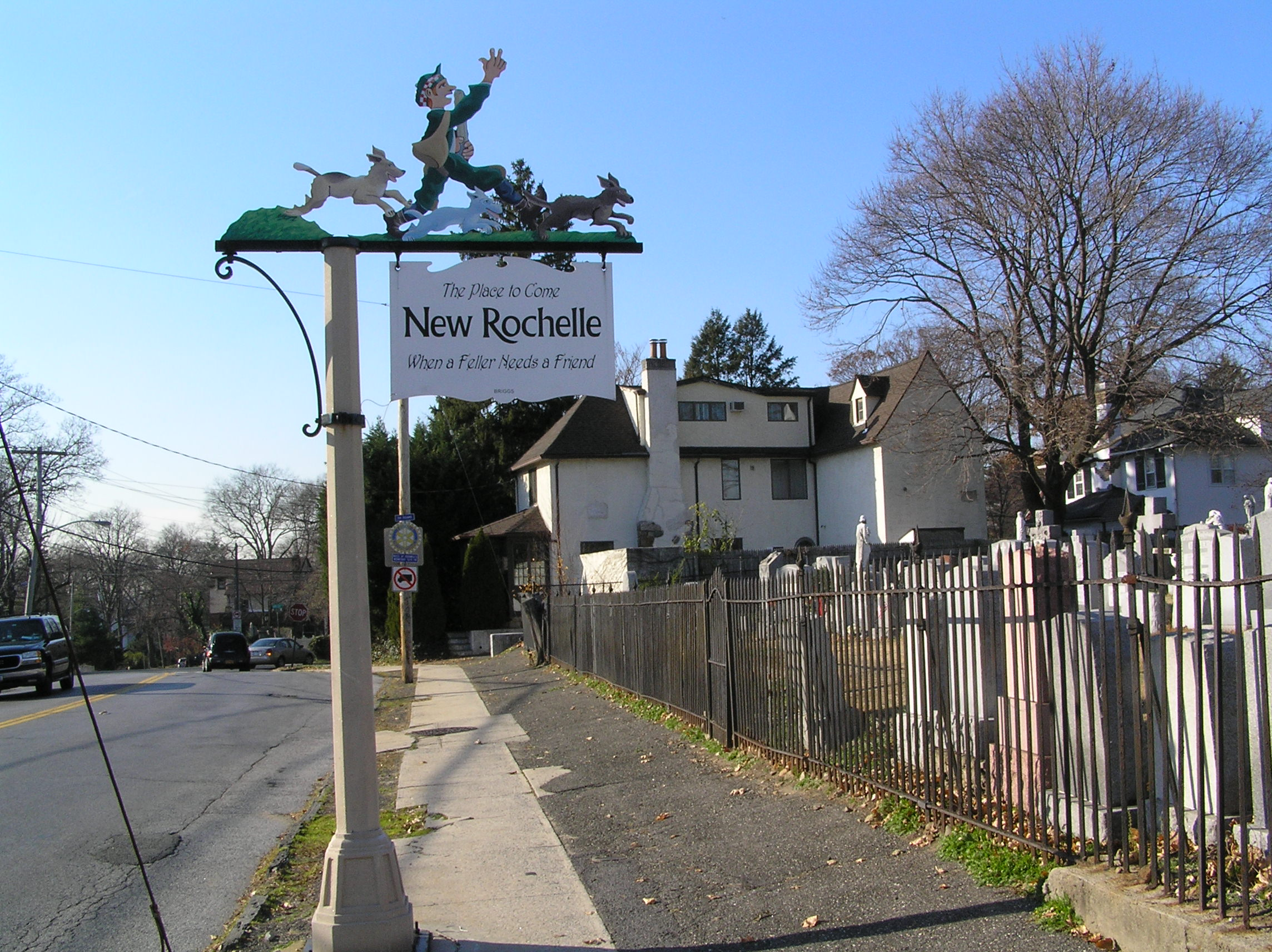 New Rochelle Welcome Sign on Kings Highway